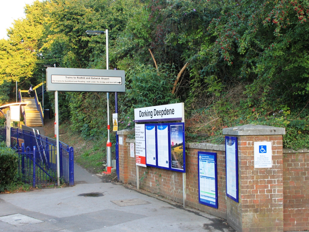 Dorking Deepdene station is situated on a bridge over a road; this path leads up to the platform used by trains towards Redhill and Gatwick Airport.